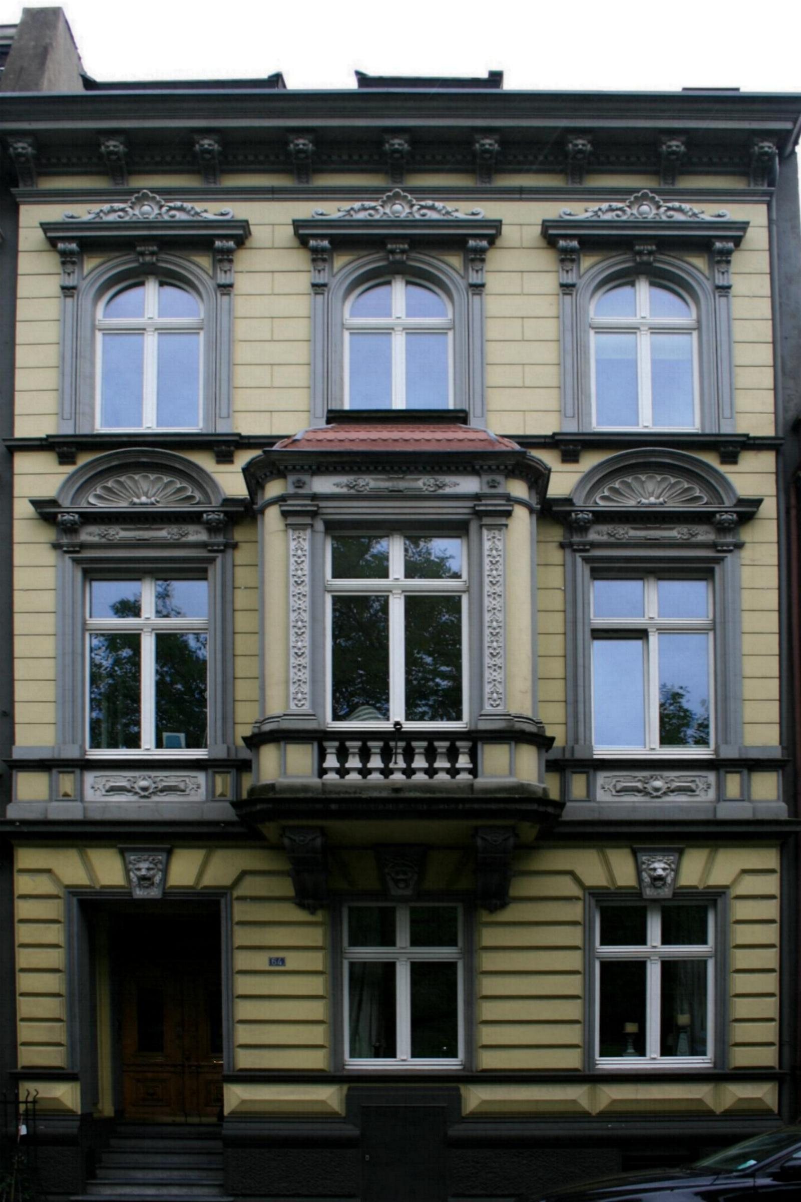 Cultural heritage monument No. H 098 in Mönchengladbach